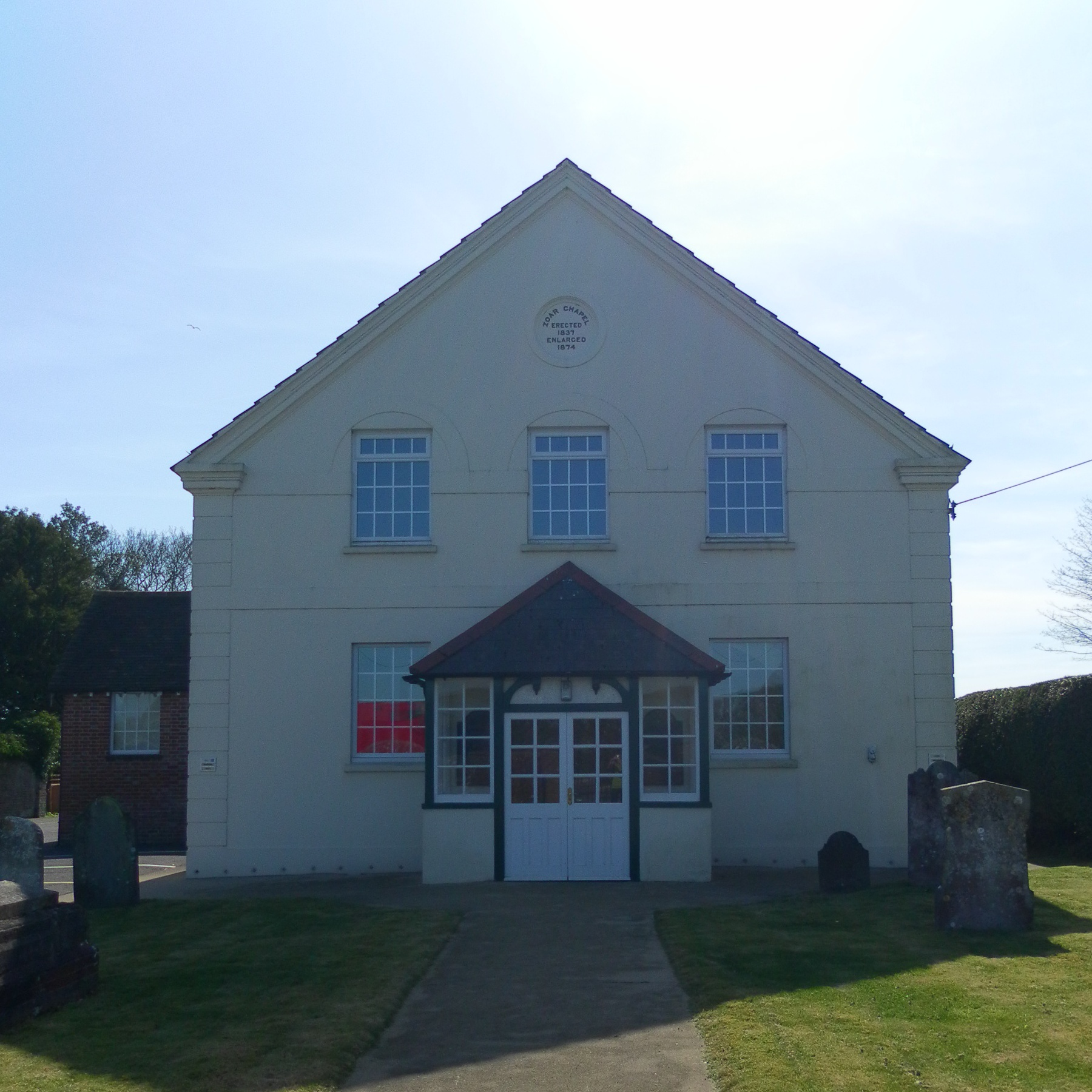 Zoar Strict Baptist Chapel, Lower Dicker, Wealden District, East Sussex, England. Built in 1837 and enlarged in 1874. This view shows the main façade, facing north.